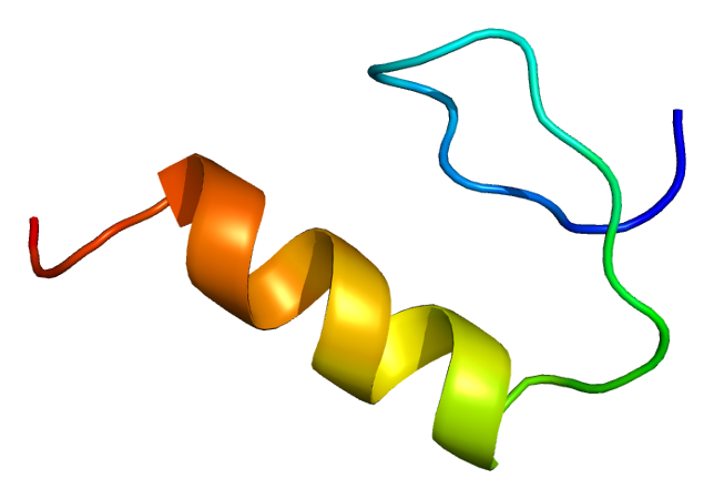 Structure of the SP1 protein. Based on PyMOL rendering of PDB 1sp1.